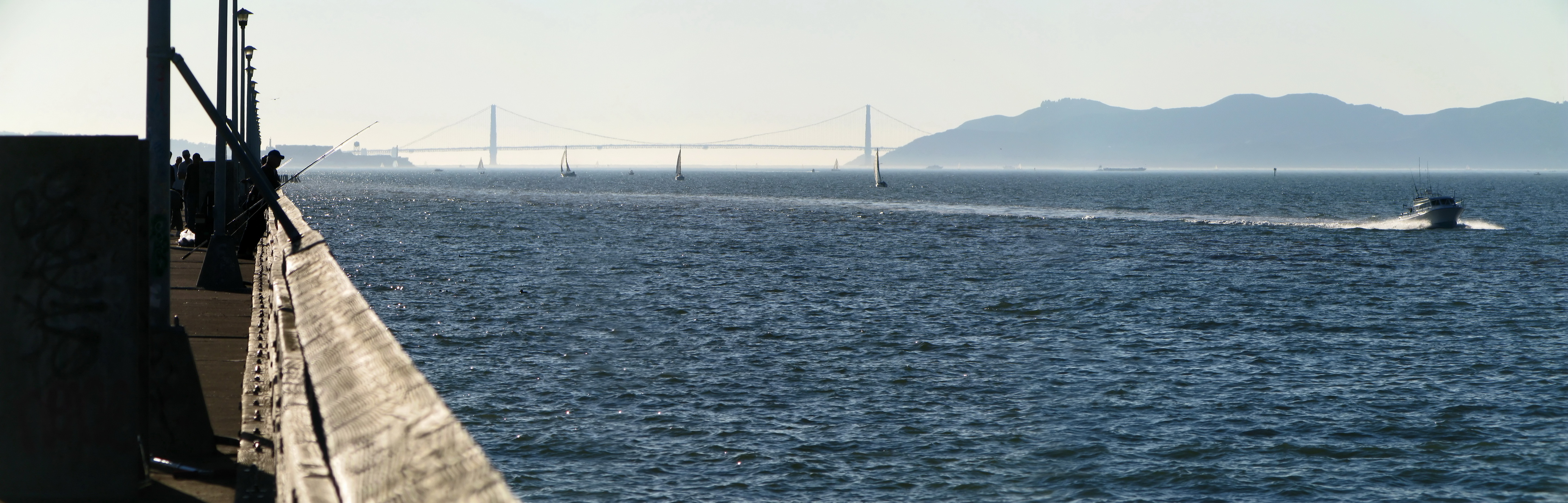 The Berkeley Pier is popular for fishing|Angling|fishing and crabbing, November 2007